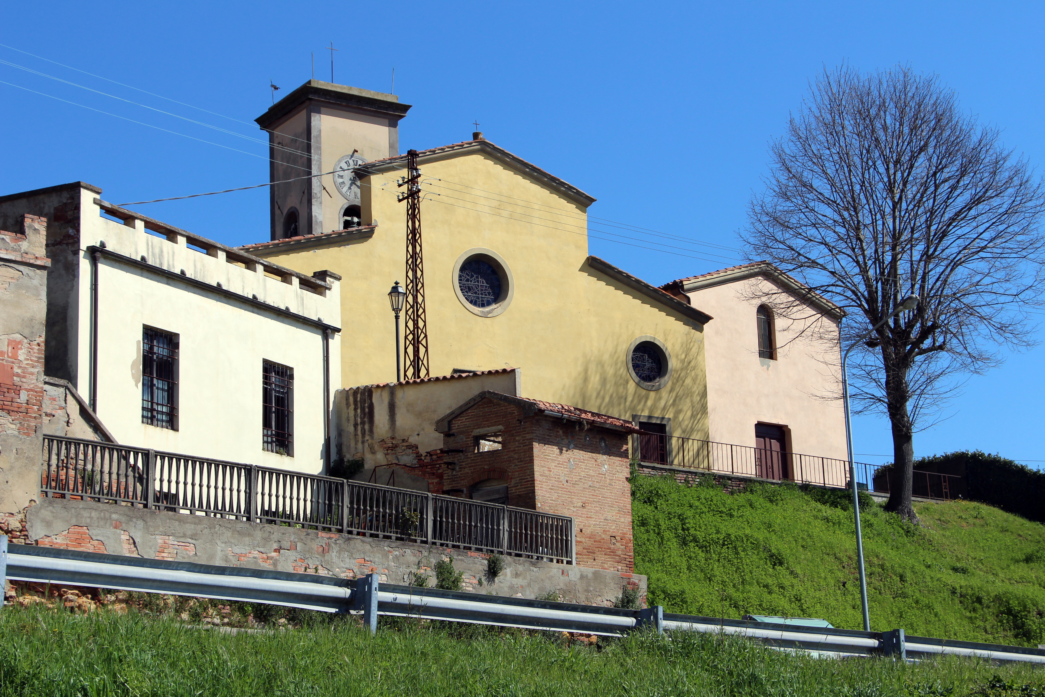 Palaia